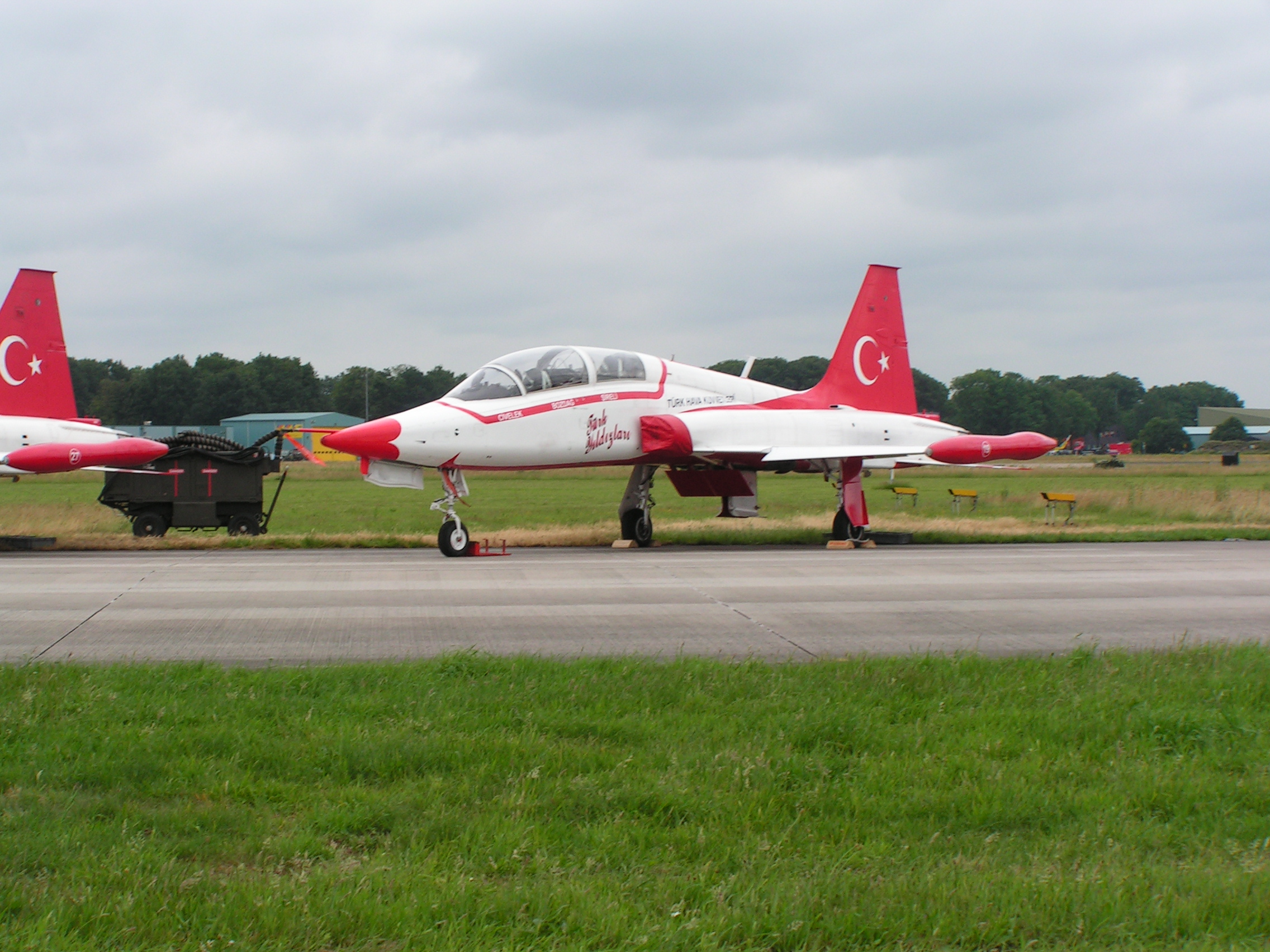 NF-5 jet of the Turkish Stars demo team at the KLu Open Dagen 2007 in Volkel.